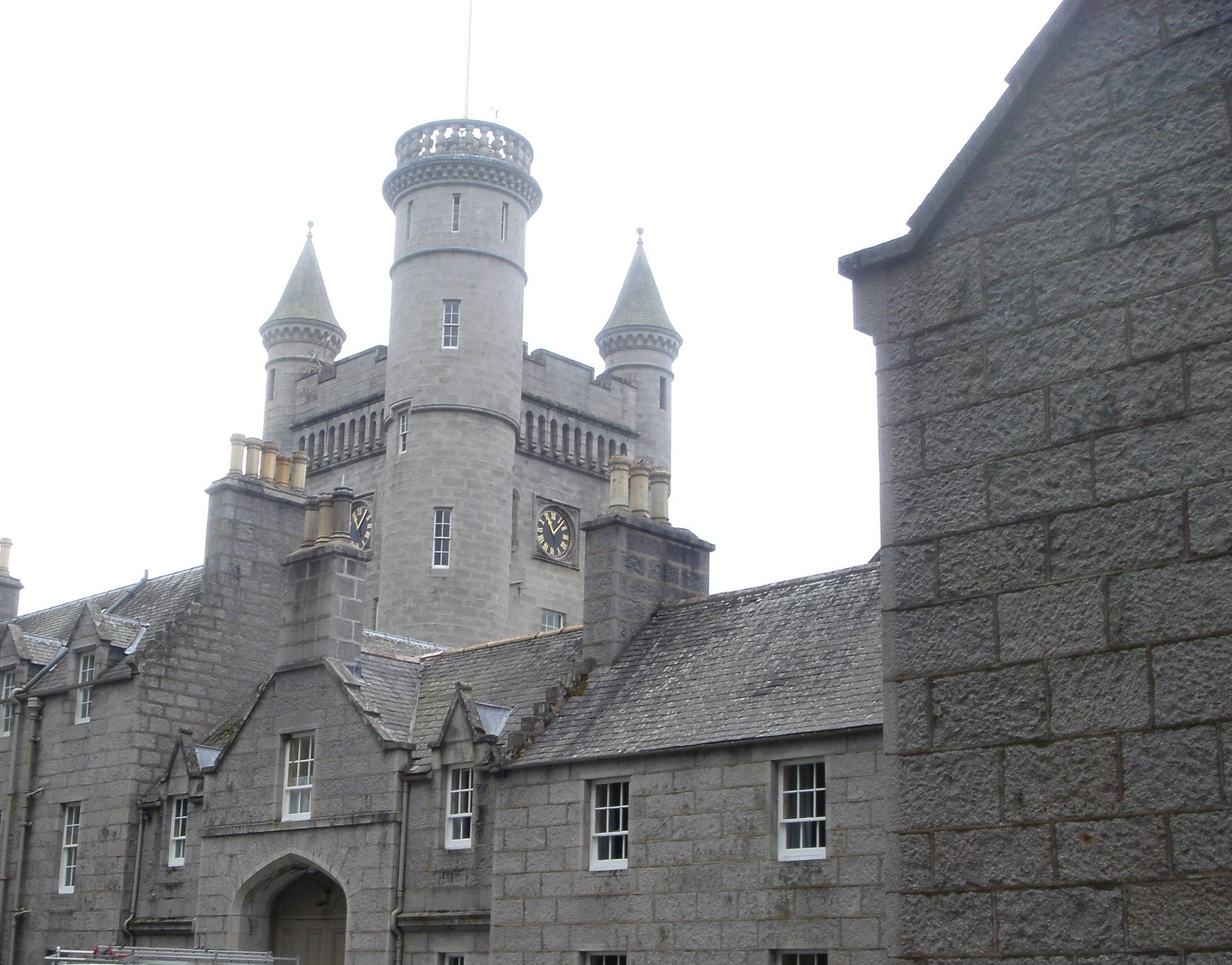 Balmoral Castle in Royal Deeside, Aberdeenshire, Scotland